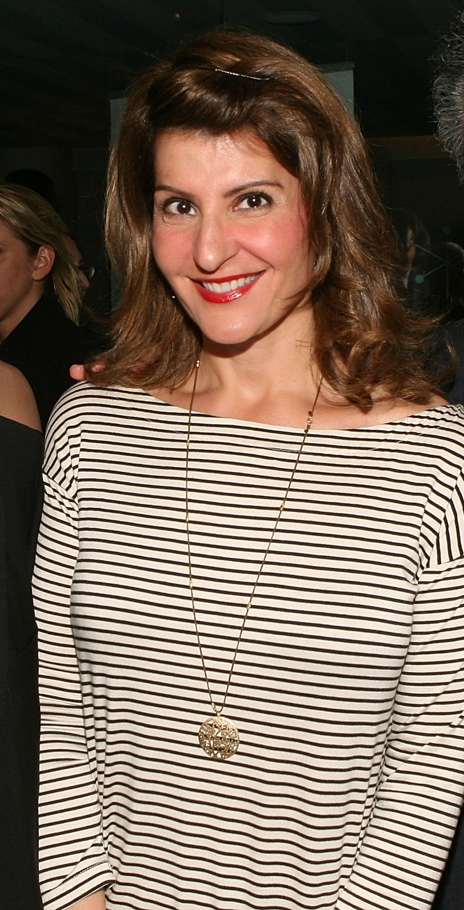 BEVERLY HILLS, CA - MARCH 09: CFC Founder Norman Jewison, actress Nia Vardalos and actor Eugene Levy attend The Canadian Film Centre cocktail reception celebrating the Telefilm Canada Features Comedy Lab held at Avalon Hotel on March 9, 2011 in Beverly Hills, California.